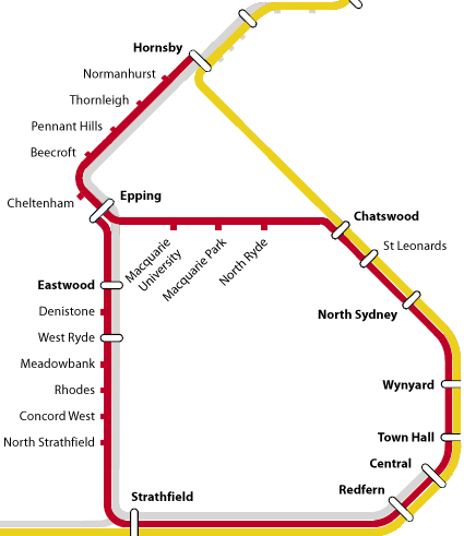 Diagram of the Epping to Chatswood Railway Line, according to the NSW State Plan, due to be complete in 2008. It will be combined with the existing Northern Line to form services to travel from Hornsby down to Epping, then to Chatswood via the ECRL, then North Sydney and the City via North Shore, and back to Epping via Strathfield. Diagram only shows three lines: the existing North Shore/Western Lines (yellow), the Newcastle and Central Coast intercity line (grey), and the new Northern Line combined with ECRL (red). Other lines are omitted in this diagram.